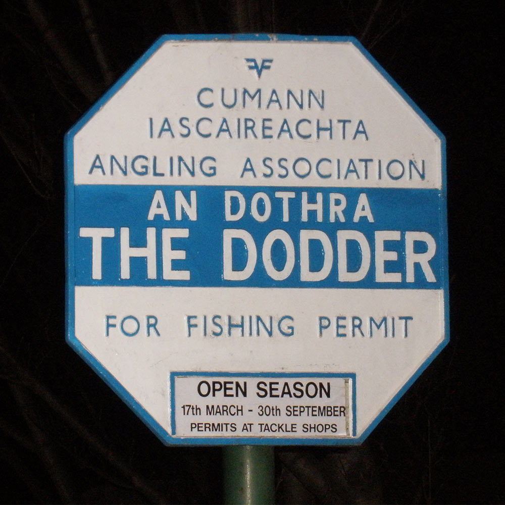 Sign for the River Dodder by Cumann Iascaireachta (Irish Angling Association) showing fishing season dates.